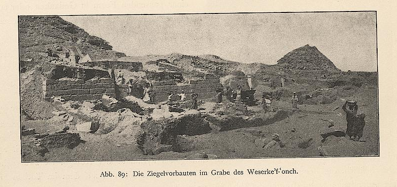 A photograph of the tomb of Userkafankh, an official of the Fifth Dynasty under Neferirkare Kakai, Nyuserre Ini, and probably Djedkare Isesi. Taken from Ludwig Borchardt's Das Grabdenkmal des Königs Ne-User-Re (1907).